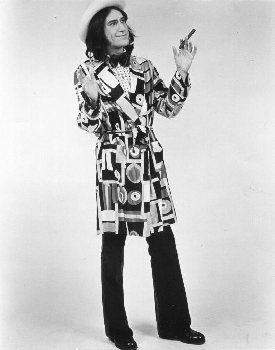 A promotional shot of Ray Davies, of The Kinks. He is in character as "Mr Flash" (See Weisbard, Eric: This is pop: in search of the elusive at Experience Music Project, ISBN 0674013212, p. 139), from the Preservation series of albums and theatrical works. This work qualifies as PD-PRE1978. It was created around 1974 (See Weisbard for dates of Preservation), and most firmly before 1976. It depicts Ray Davies in costume as a character from Preservation, a project which began in 1973 and ended in 1974 (See Erlewine, Stephen: The Kinks on ). RCA would have promoted the album's release from 1973-74, when both Act 1 and Act 2 were released. This work was most certainly published before 1978, as The Kinks departed from RCA for Arista Records in 1976 (See Erlewine). Note also the "exclusively on RCA," explaining that this was released at the time when The Kinks and Ray Davies were still under contract with the company. See here for original copy, with claim of exclusivity, logo, etc.